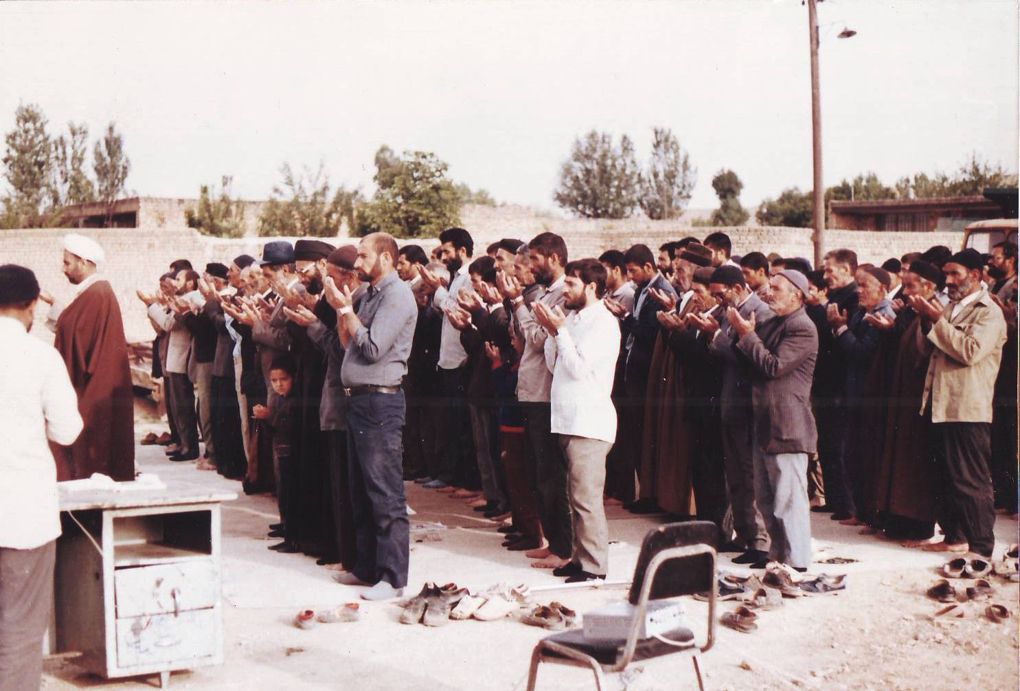 ازنا , شهرک المهدی , قنوت نماز عید فطر 1362